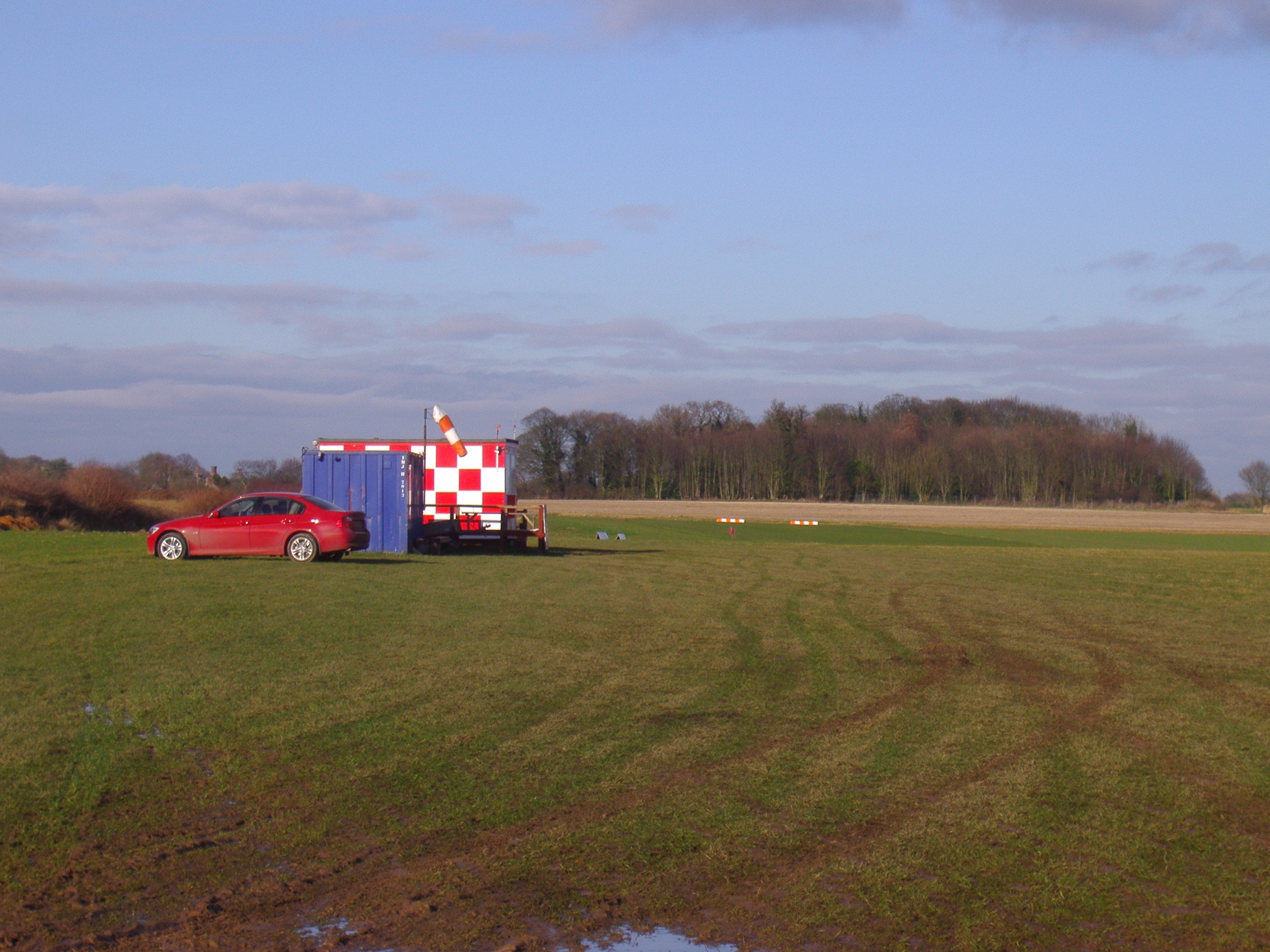 A Digital Photograph of Northrepps Aerodrome taken on the 12th January 2008 by Haydnaston